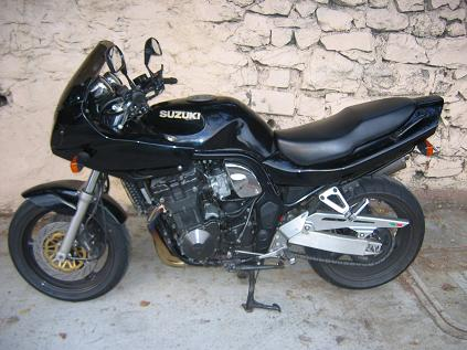 A picture of my 1998 Bandit 1200s.